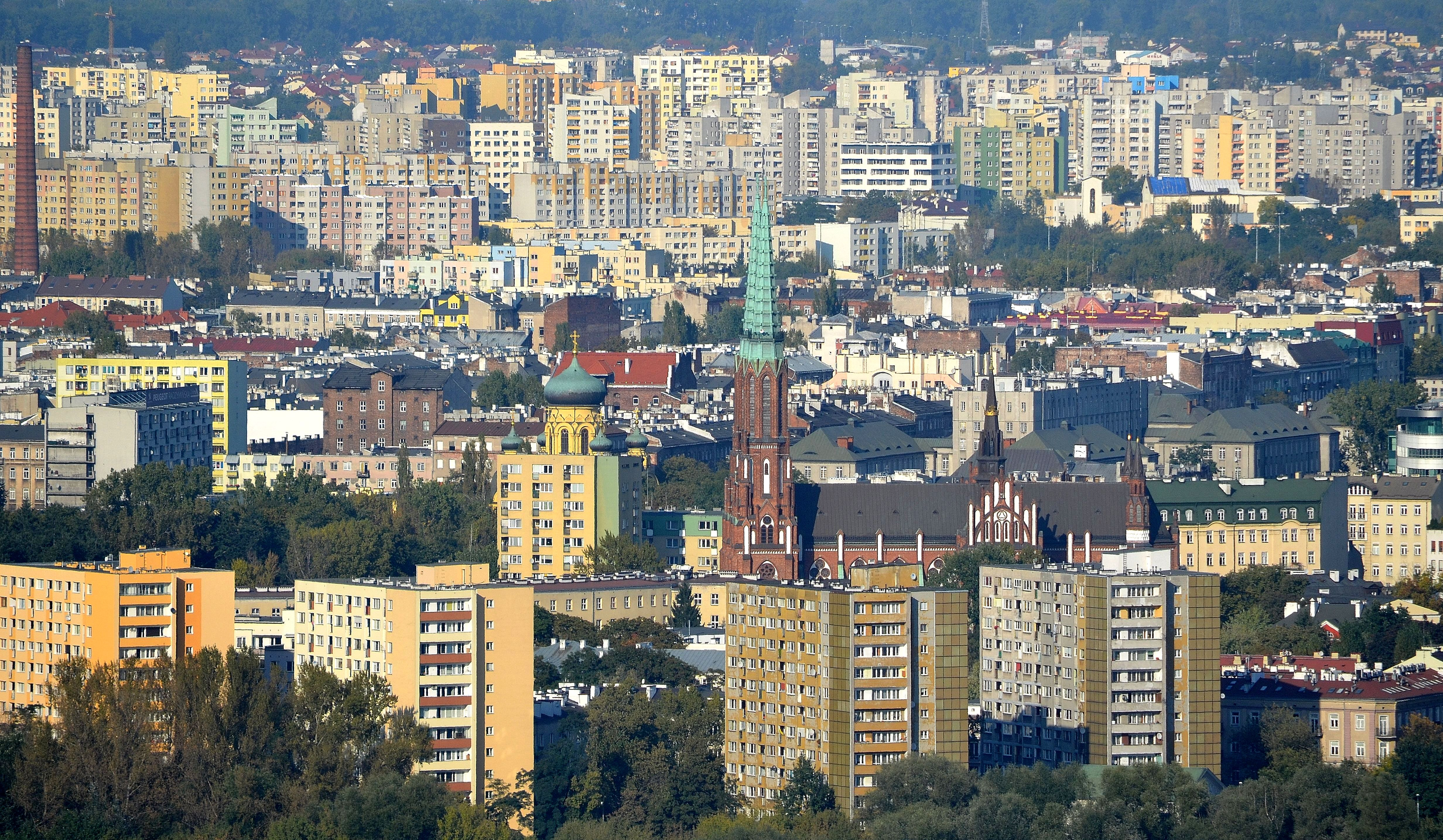 Praga-Północ and Targówek districts viewed from the Palace of Culture and Science